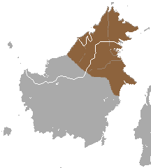 Hose's Langur (Presbytis hosei) range